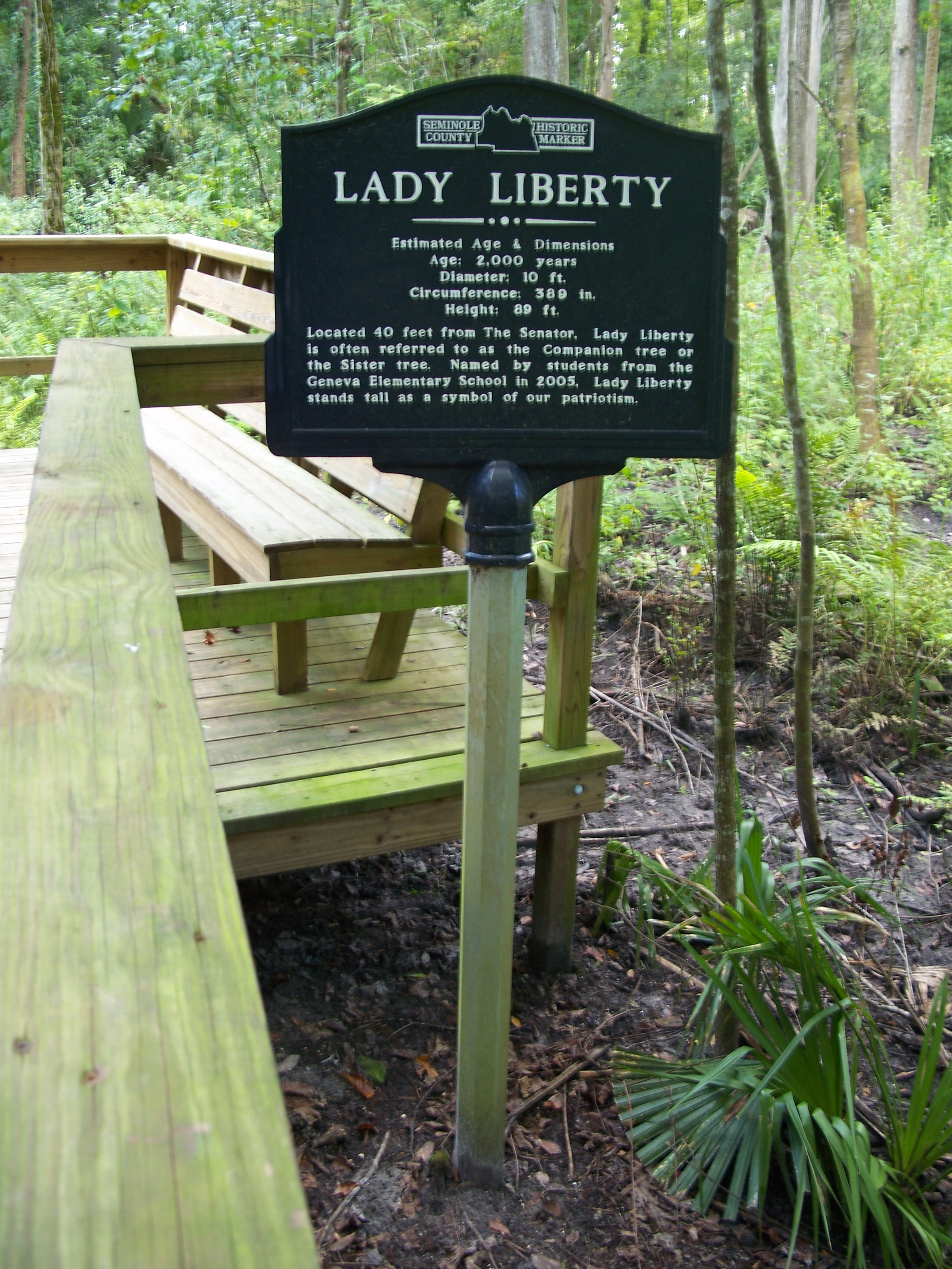 Informational marker about Lady Liberty, in Big Tree Park, in Longwood, Florida.